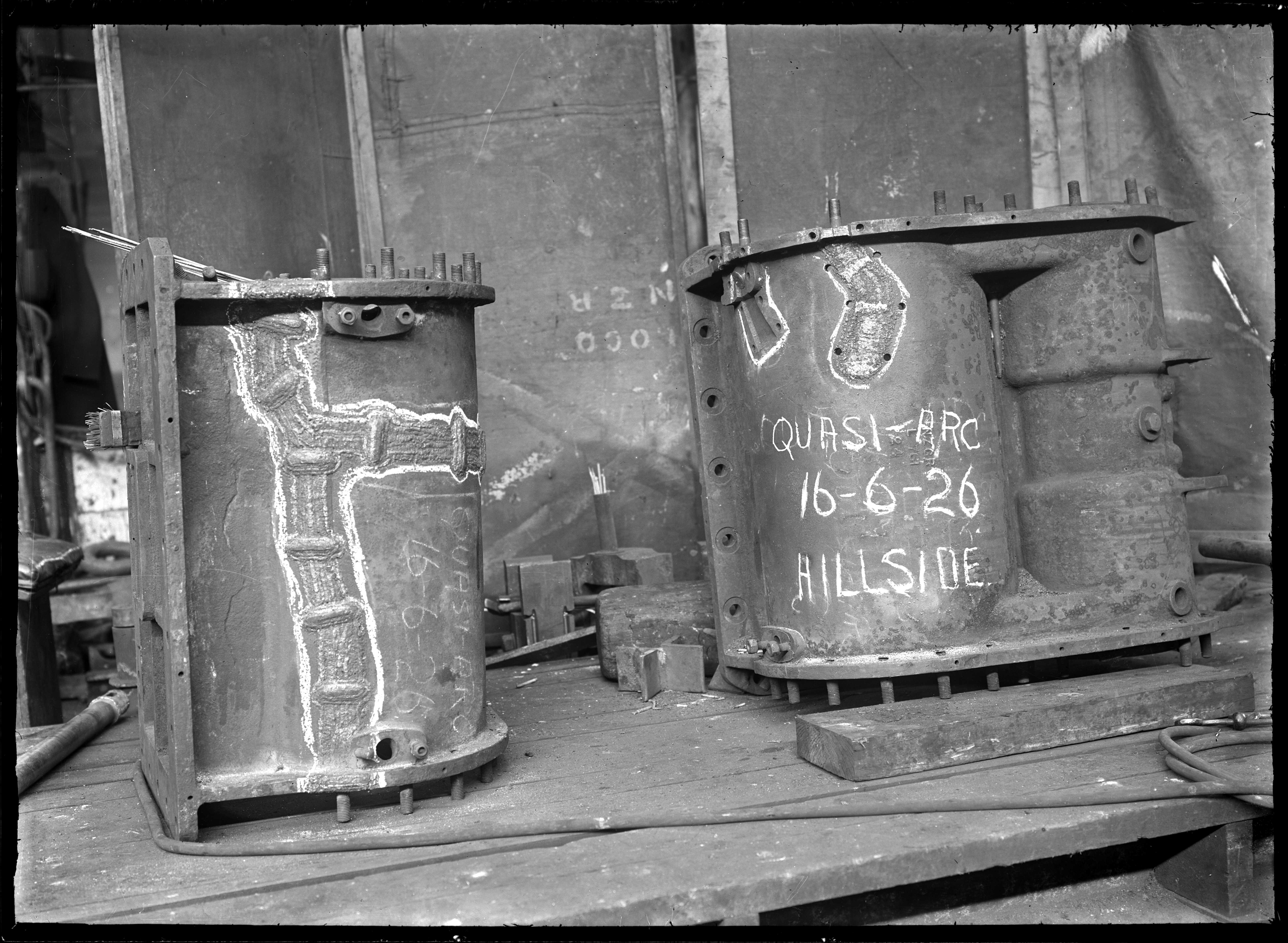 Closeup view of cylinders welded by the quasi-arc process. Photographed at the Hillside Railway Workshops, Dunedin, by A P Godber, in 1926.